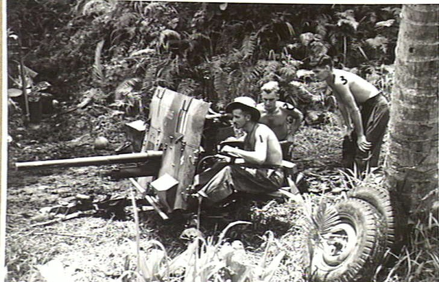 Anti-tank gunners from the 11th Battery, 2/3rd Anti-Tank Regiment, at Godowa, New Guinea, November 1943